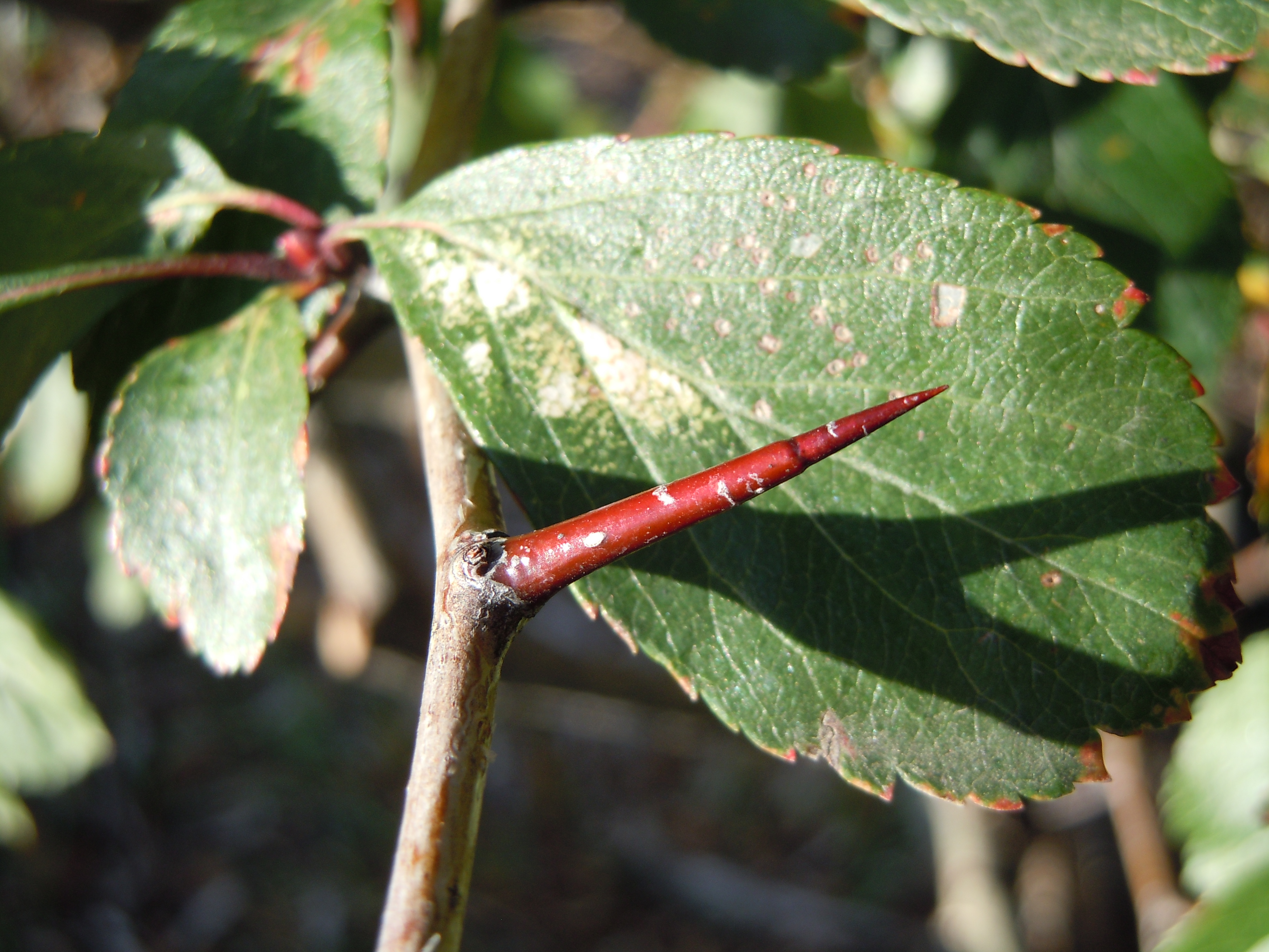 This native tree or shrub is sometimes cultivated as an ornamental. The thorns less then 3 cm long and the shallowly lobed serrate margins are characteristic of this species.